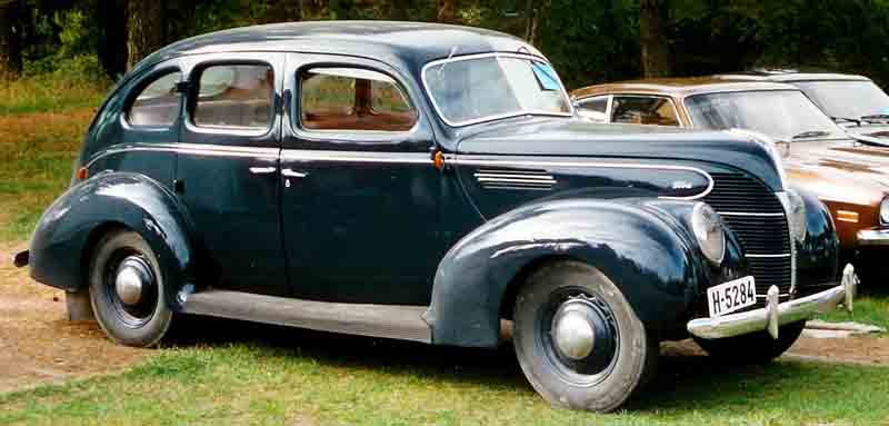 Ford 73A Standard Fordor Sedan 1939